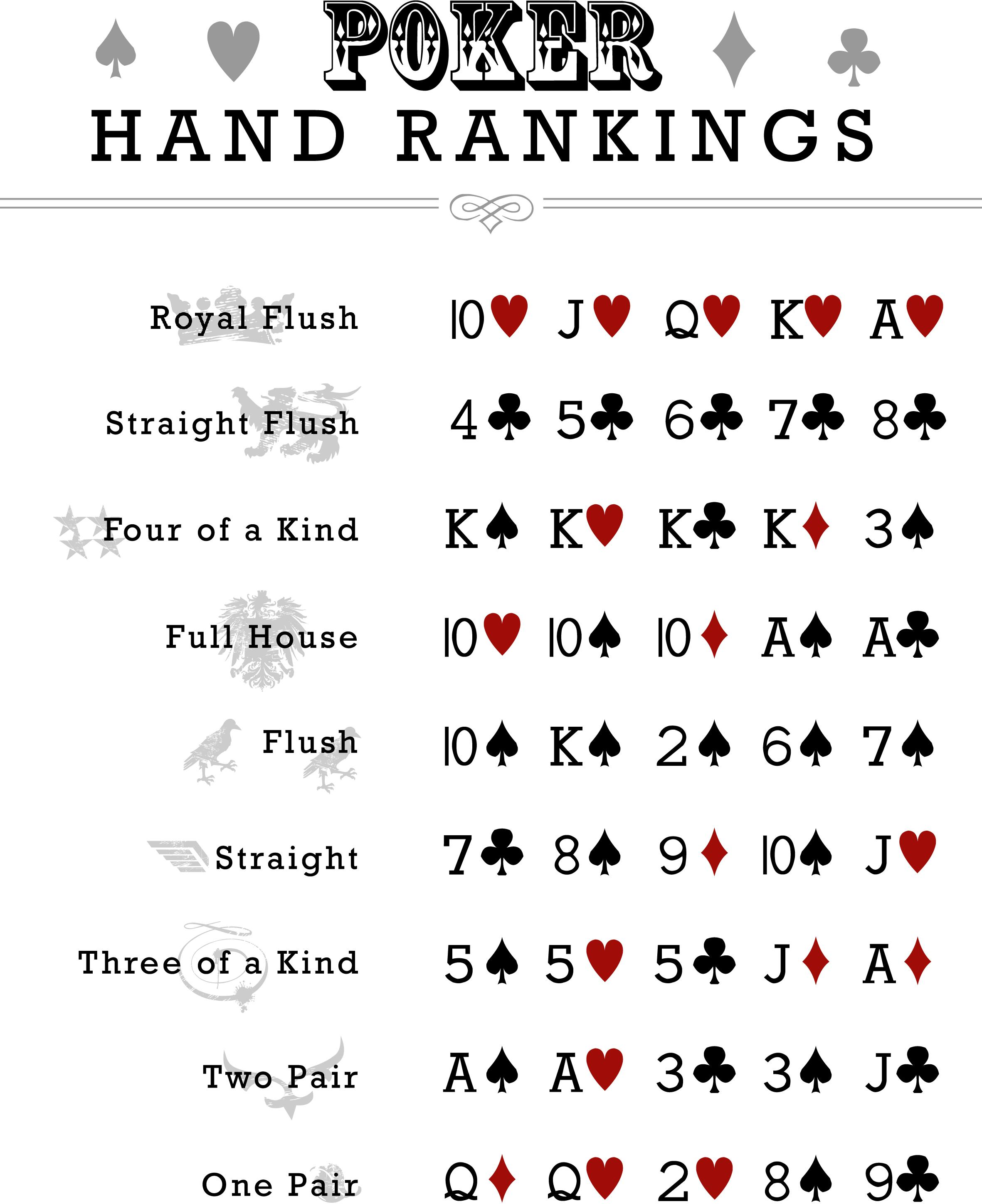 Uploaded by user: Grundlebug